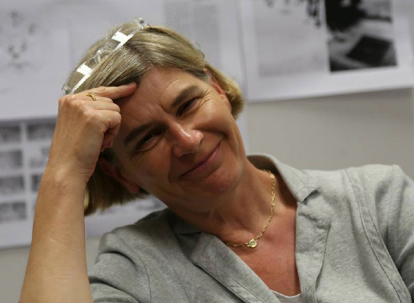 Bettina Schlorhaufer during the studio "Alles ist Architektur" ("Everything is Architecture") at Innsbruck University, Faculty of Architecture.